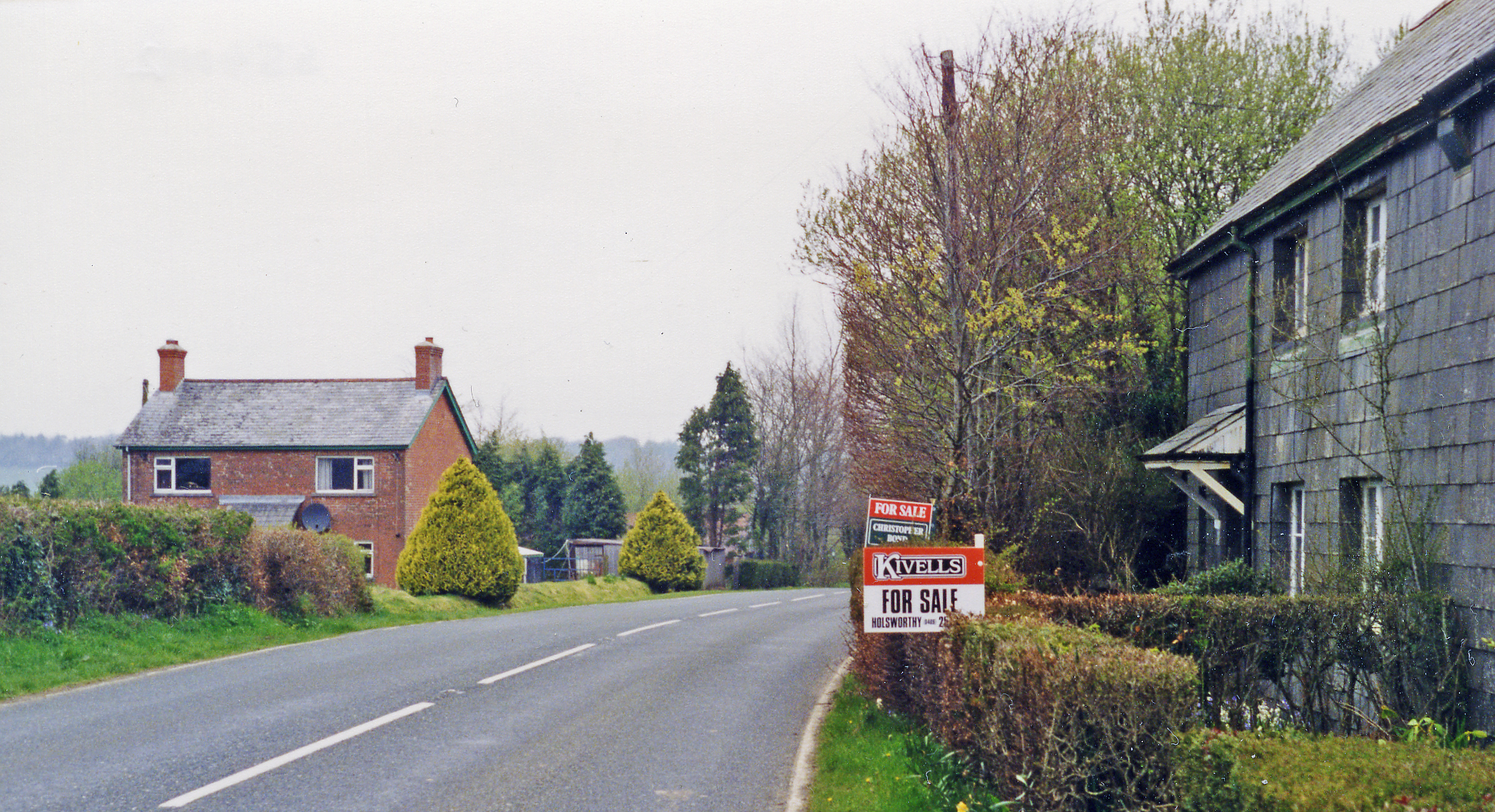 In deepest Devon by site of Dunsland Cross station, 1995. View northward on B3273, one mile south of Dunsland Cross. The station had been on the right and was on the ex-LSWR Halwill Junction - Bude line, closed 3/10/66.